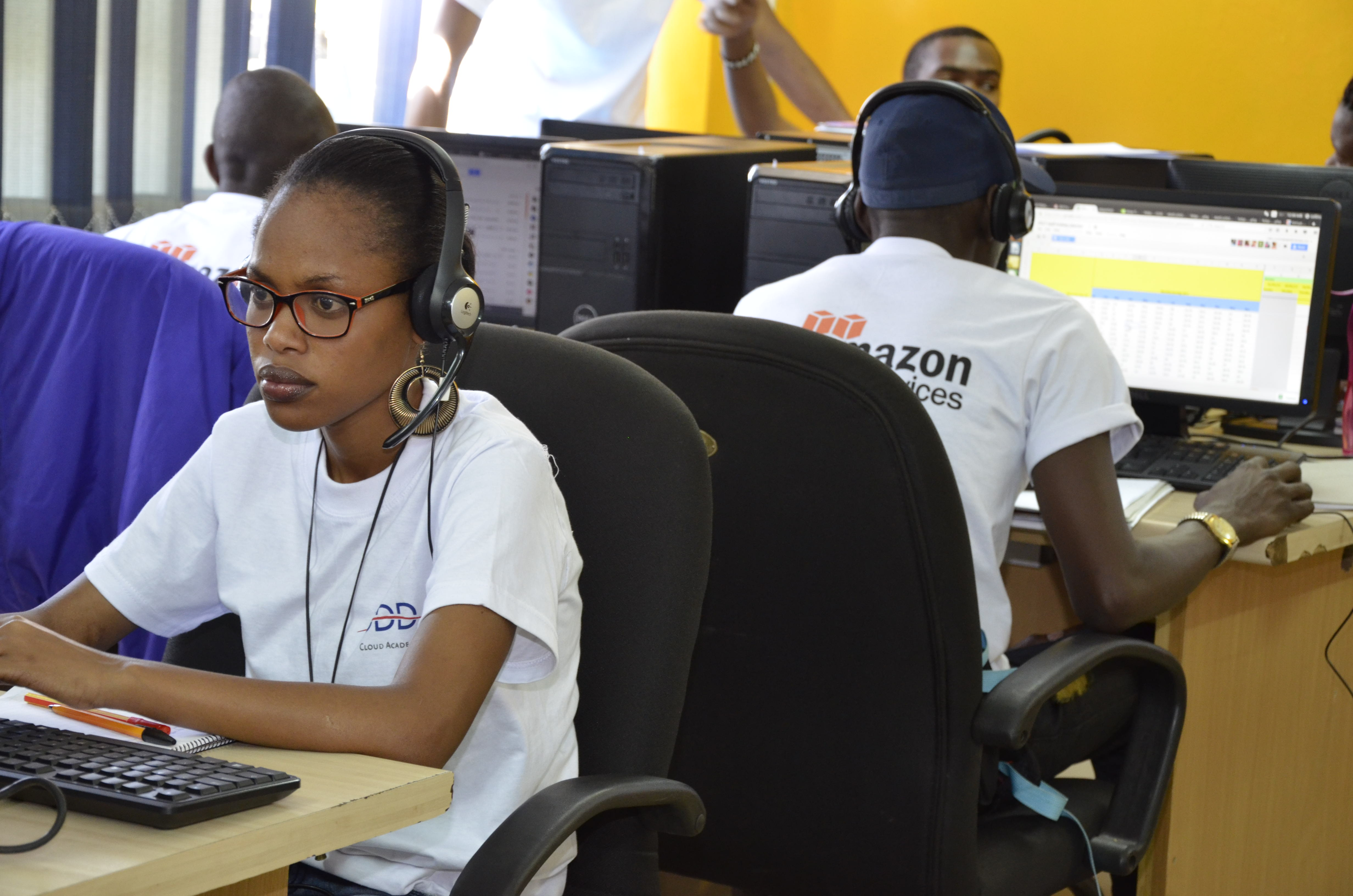 A young lady work on her computer after attaining a certification by the Amazon web services for cloud hosting This is an image of "African people at work" from Kenya